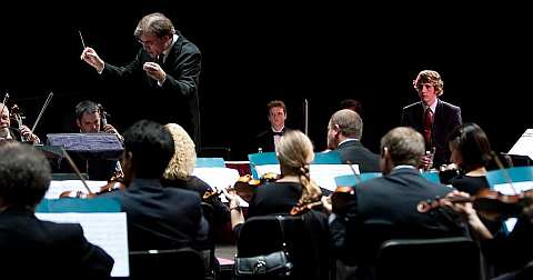 Christopher Wilkins conducting a winning composition at the 2009 NYCC Composium.